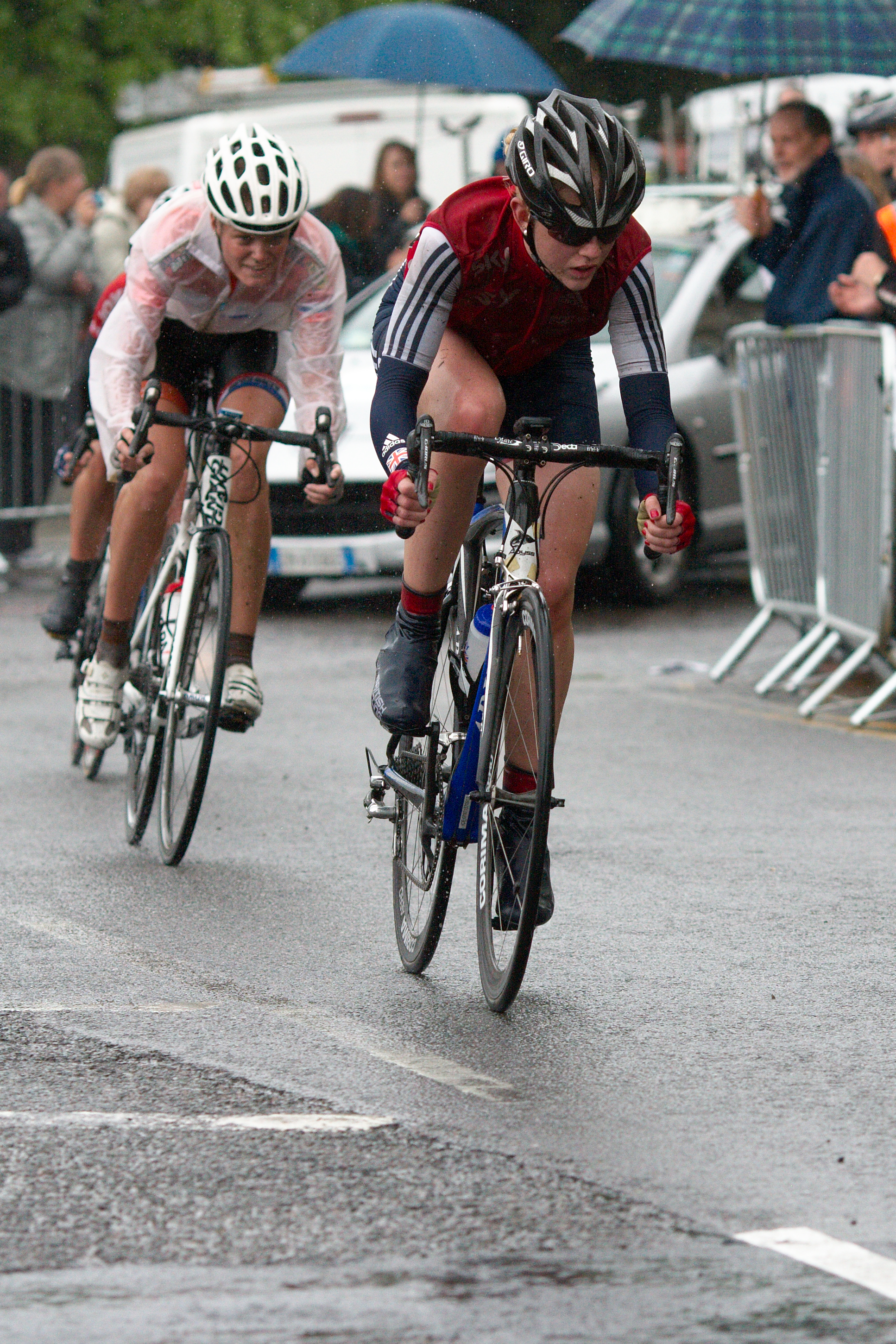 Amy Hill (GBR) during stage two of the Women's Tour 2014.